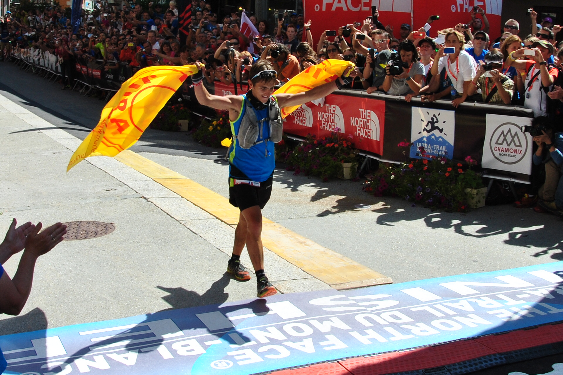 Xavier Thévenard about to cross 2013's UTMB finish line.